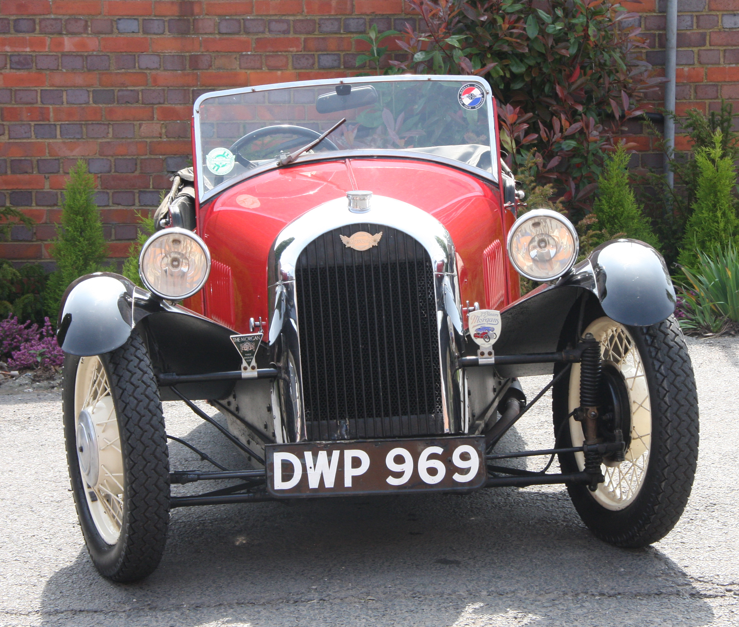 Morgan F4 tricycle...I think